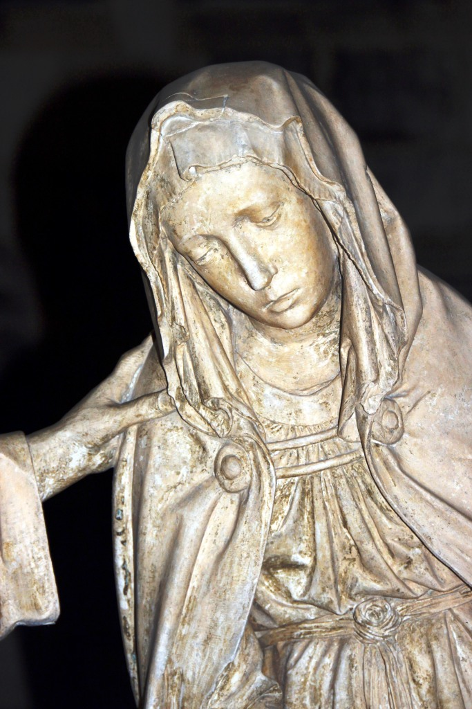 Part of sculpture in Troyes France